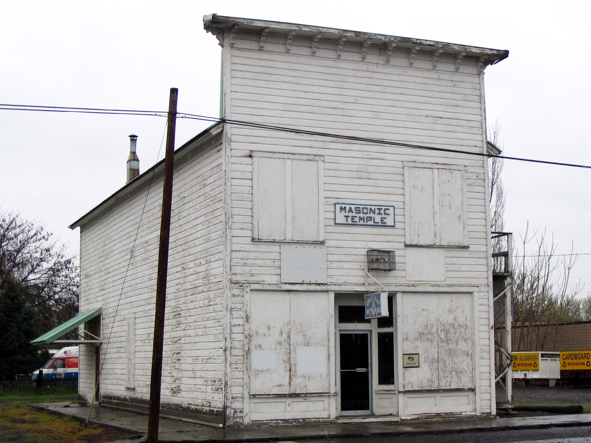 The historic Umatilla Masonic Lodge Hall (built c.1868 in Umatilla, Oregon), located at 200 South DuPont Street in Echo, Oregon, United States, is listed on the US National Register of Historic Places (NRHP). NRHP reference number 97000906